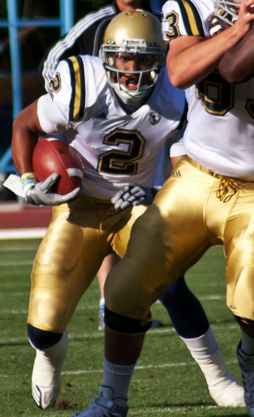 Former UCLA Bruins linebacker Anthony Barr